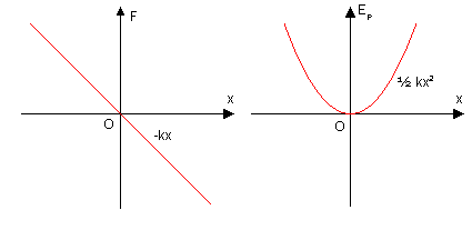 The graph of elastic force and potential energy.